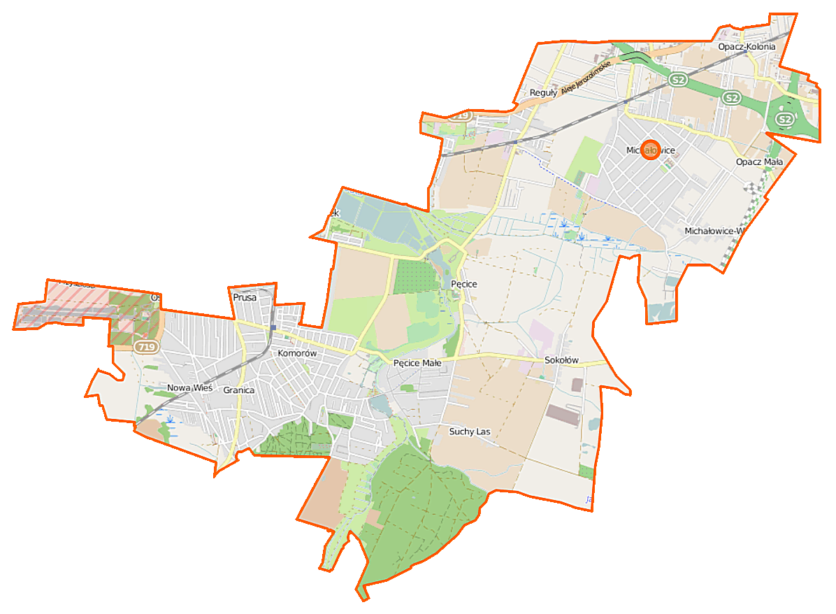 Map of Gmina Michałowice, Poland This map of Michałowice (gmina w województwie mazowieckim) was created from OpenStreetMap project data, collected by the community. This map may be incomplete, and may contain errors. Don't rely solely on it for navigation. Border coordinates52.187420.7580←↕→20.922352.1135